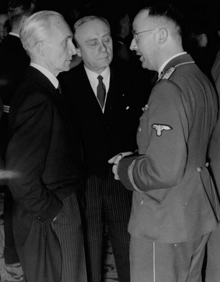 Hungarian Prime Minister László Bárdossy (left) with Hungarian Ambassador to Germany Döme Sztójay and Reichsführer SS Heinrich Himmler on 26 November 1941 in Berlin, Nazi Germany